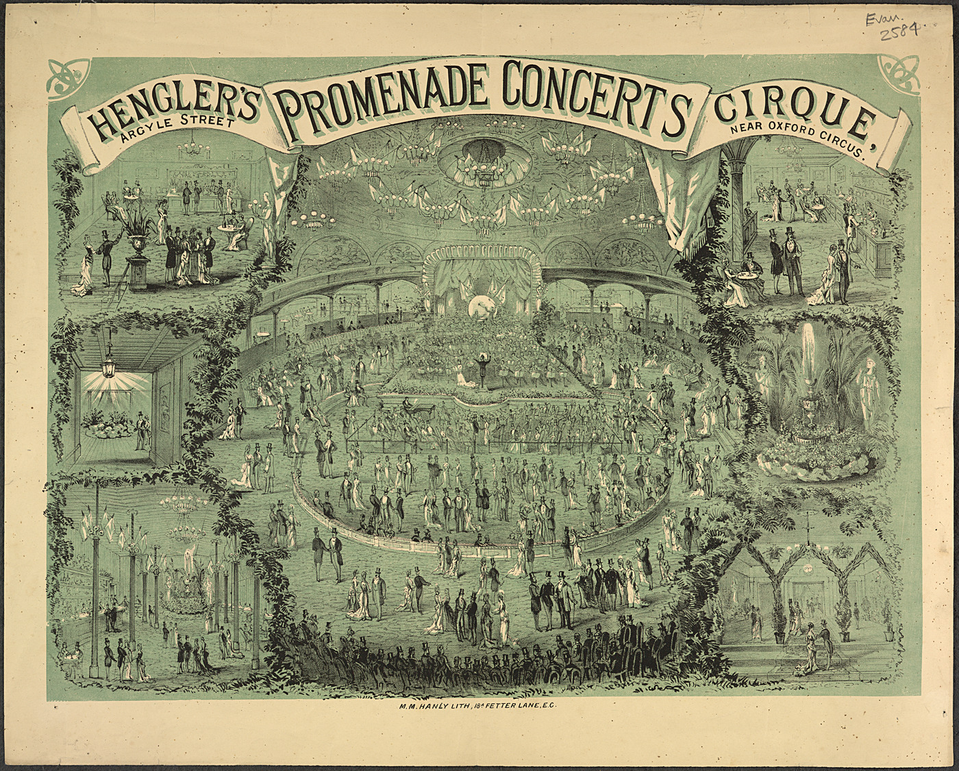 Hengler's promenade concerts A poster for Hengler's promenade concerts at Hengler's Grand Cirque, Argyle Street, London - now known as the London Palladium.